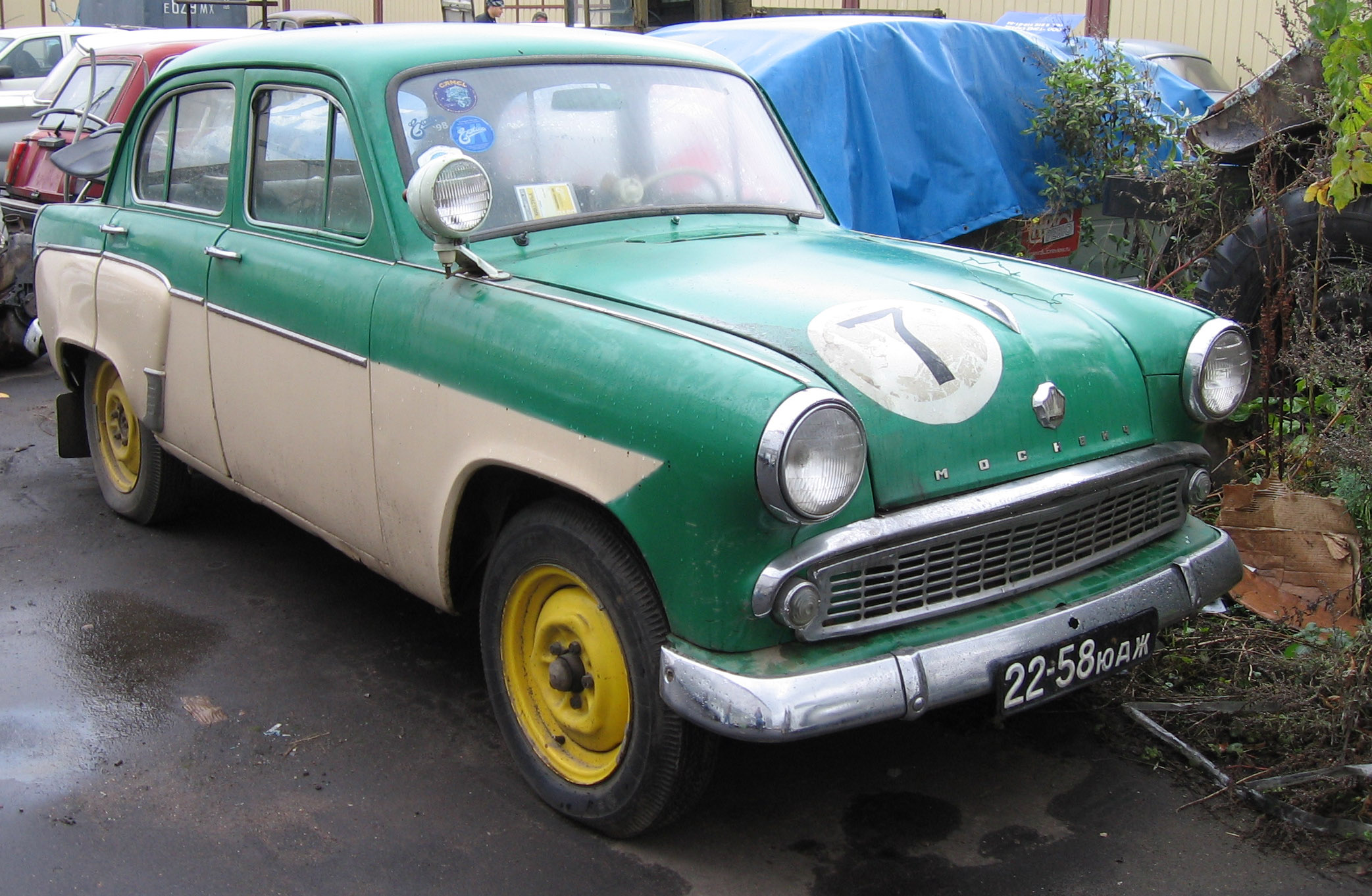 AZLK Moskvich 407 rally version